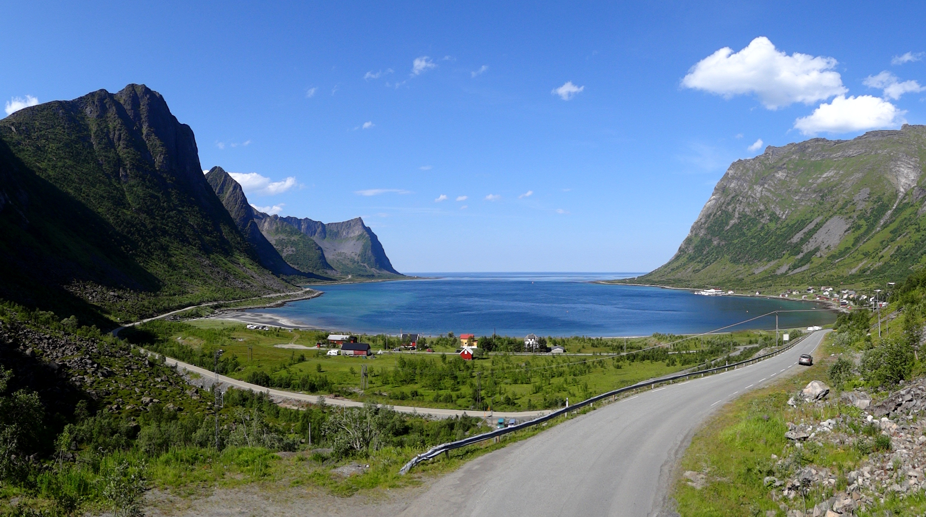 Steinfjorden (fjord) and Steinfjord (village) seen from where the tunnel through Steinfjordskaret exist to the north.